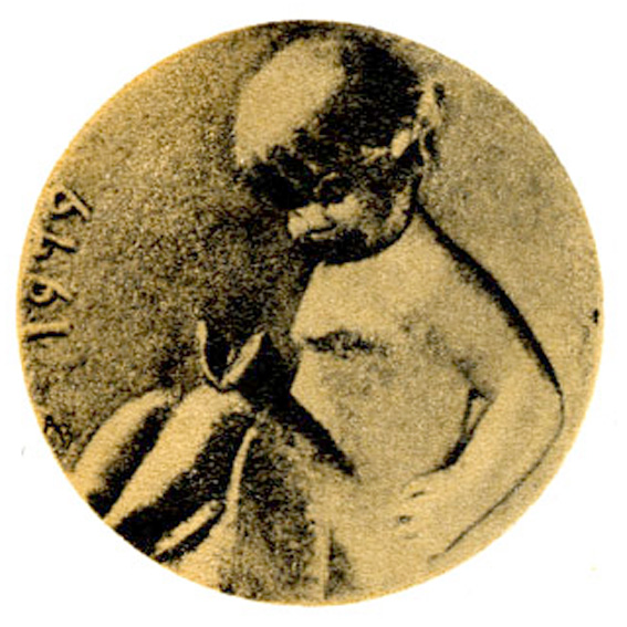 Medal "Butterfly" Sculptor Aleksandra Briede. Obverse.